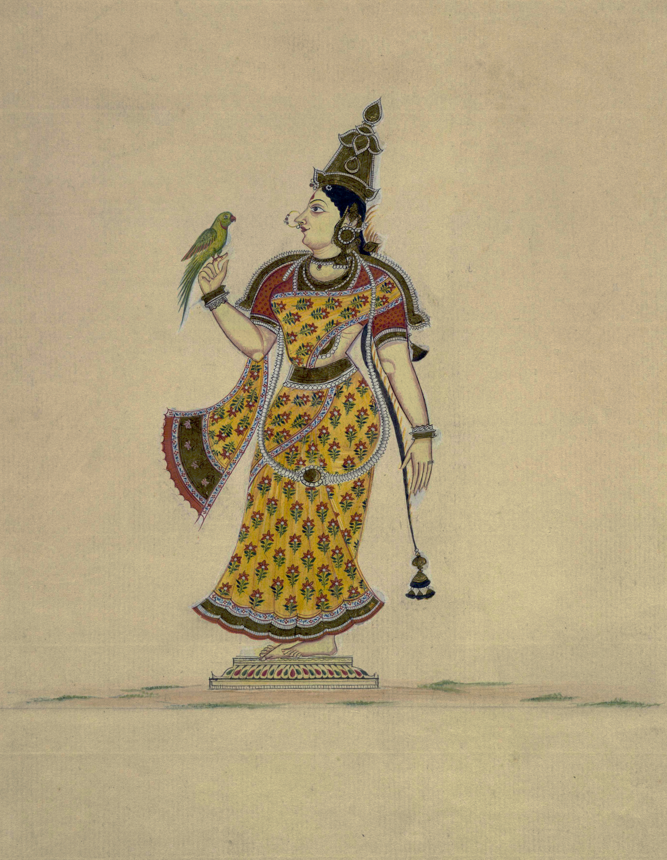 "The goddess Minaksi. She is depicted crowned, two-armed and with a green parrot perching on her right hand. An impression of perspective is provided by a lightly sketched-in foreground. On laid European paper watermarked with an armorial design and the letters 'W T'."